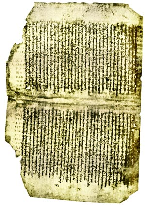 Codex Dublinensis Rescriptus Z/035 (Gregory-Aland)